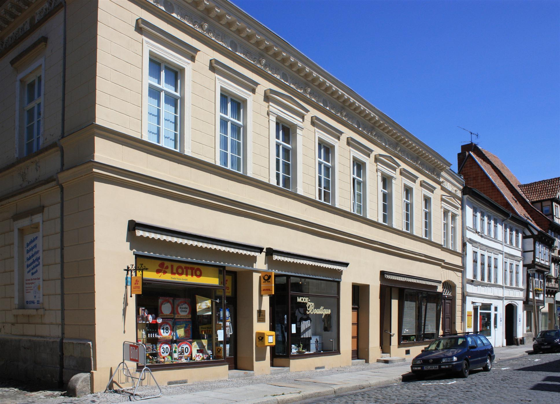 2=Building in Quedlinburg / Germany Steinweg 1a und 1b